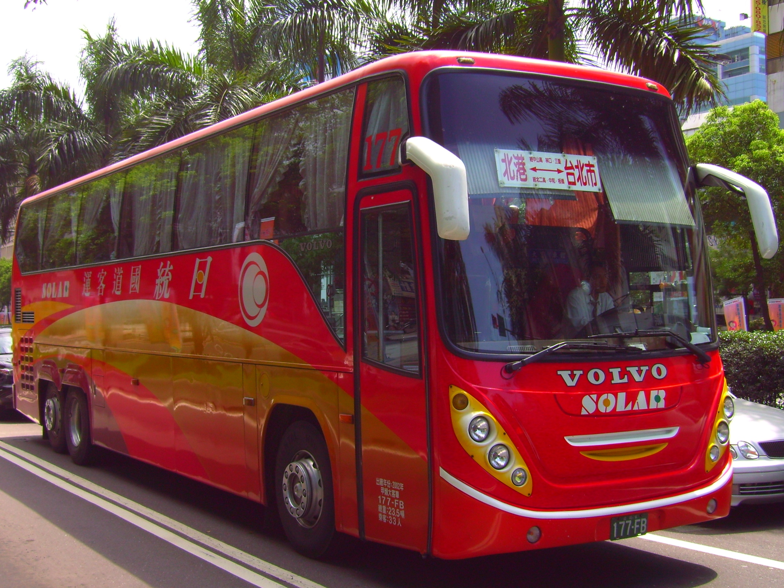 Solar Bus Co., Ltd. (Taiwan) operated freeway bus line with VOLVO B12T.